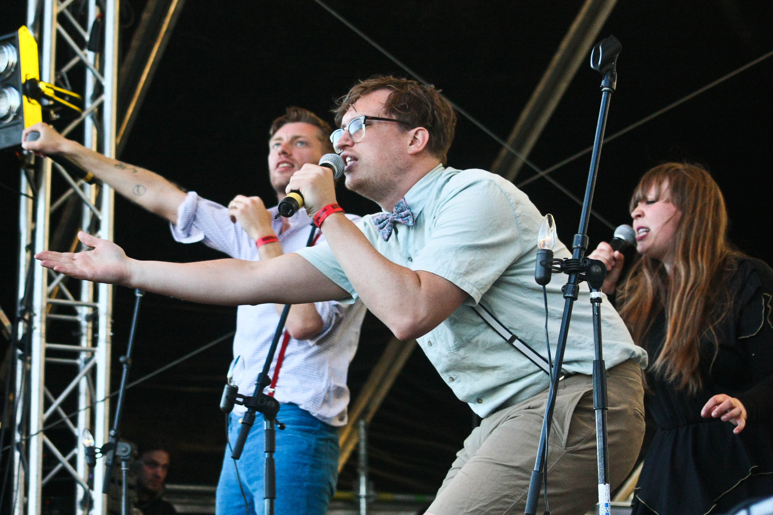 FM Belfast at Sonnenrot Festival (Eching/Germany)